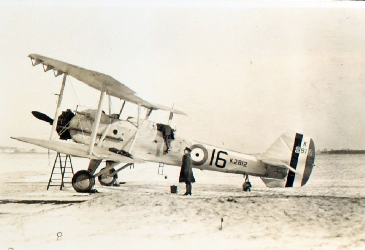 Vickers Vildebeest of RAF at Cranwell Air Base.